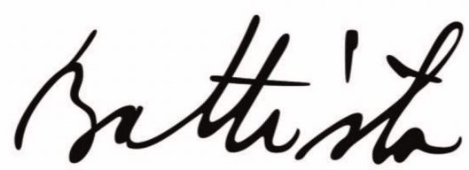 Automobili Pininfarina GmbH logo